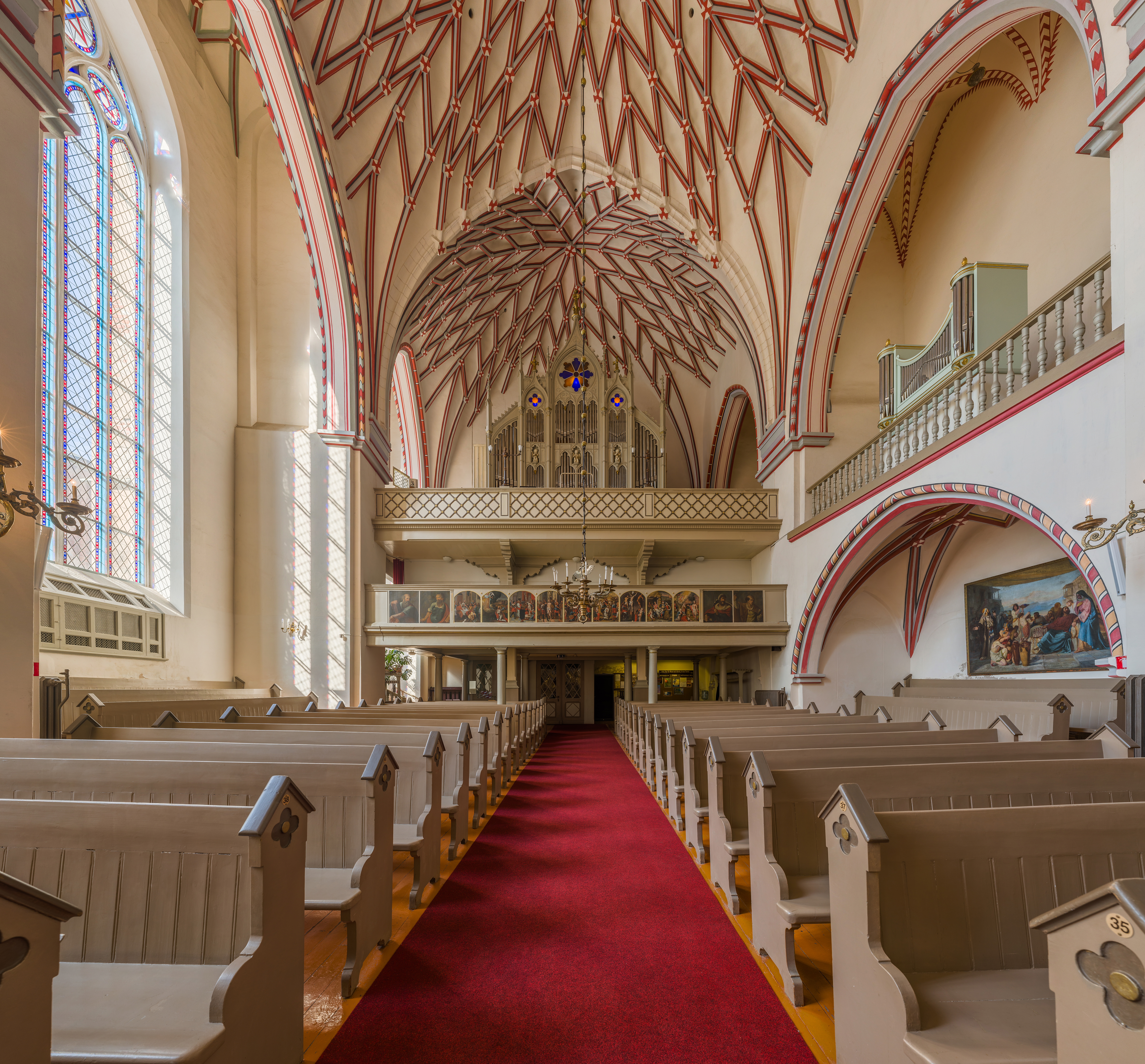 The interior of St. John's Church in Riga, Latvia.